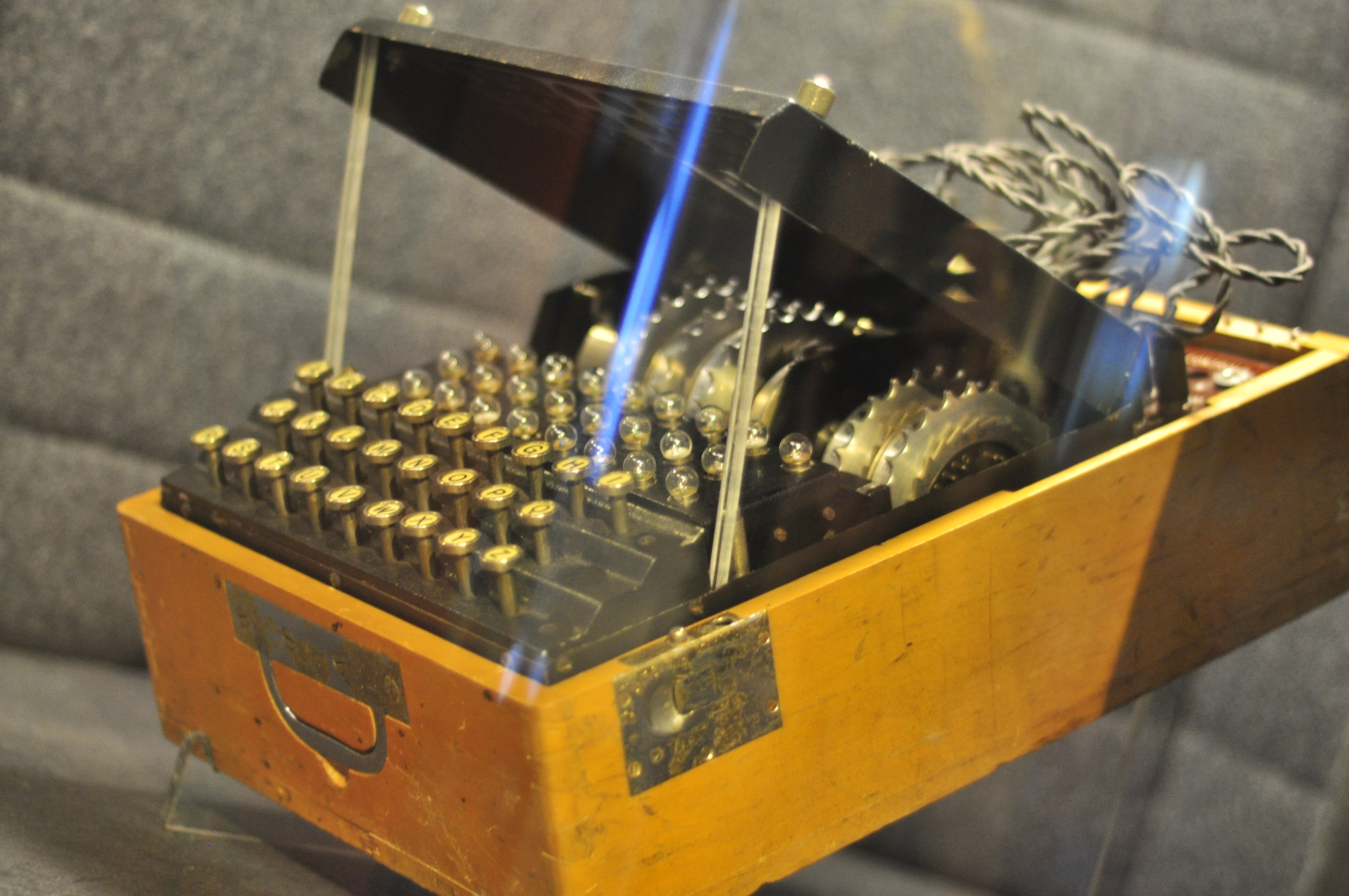 One of the four machines assembled in France in 1940, held in the Jozef Pilsudski Institute in London.